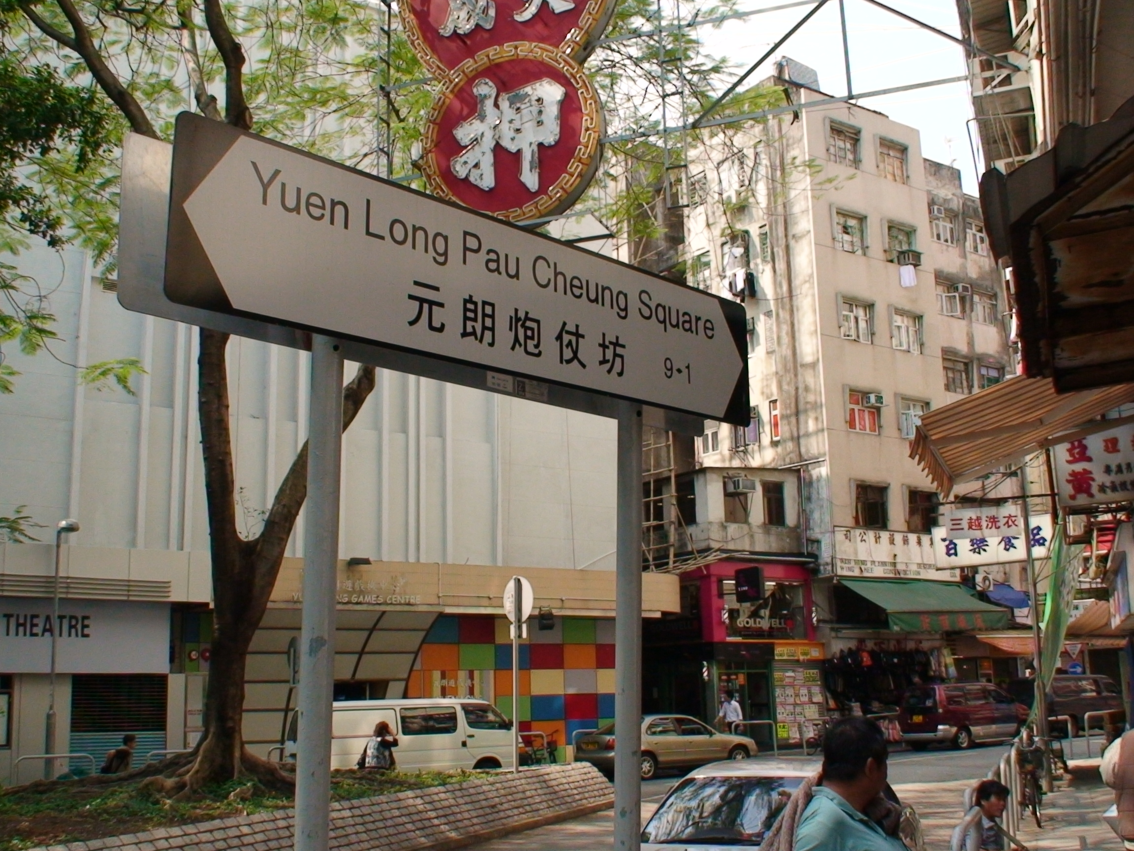 Yuen Long Pau Cheung Fong Square (元朗炮仗坊) is a culs-de-sac street in Yuen Long, N.T. Hong Kong.